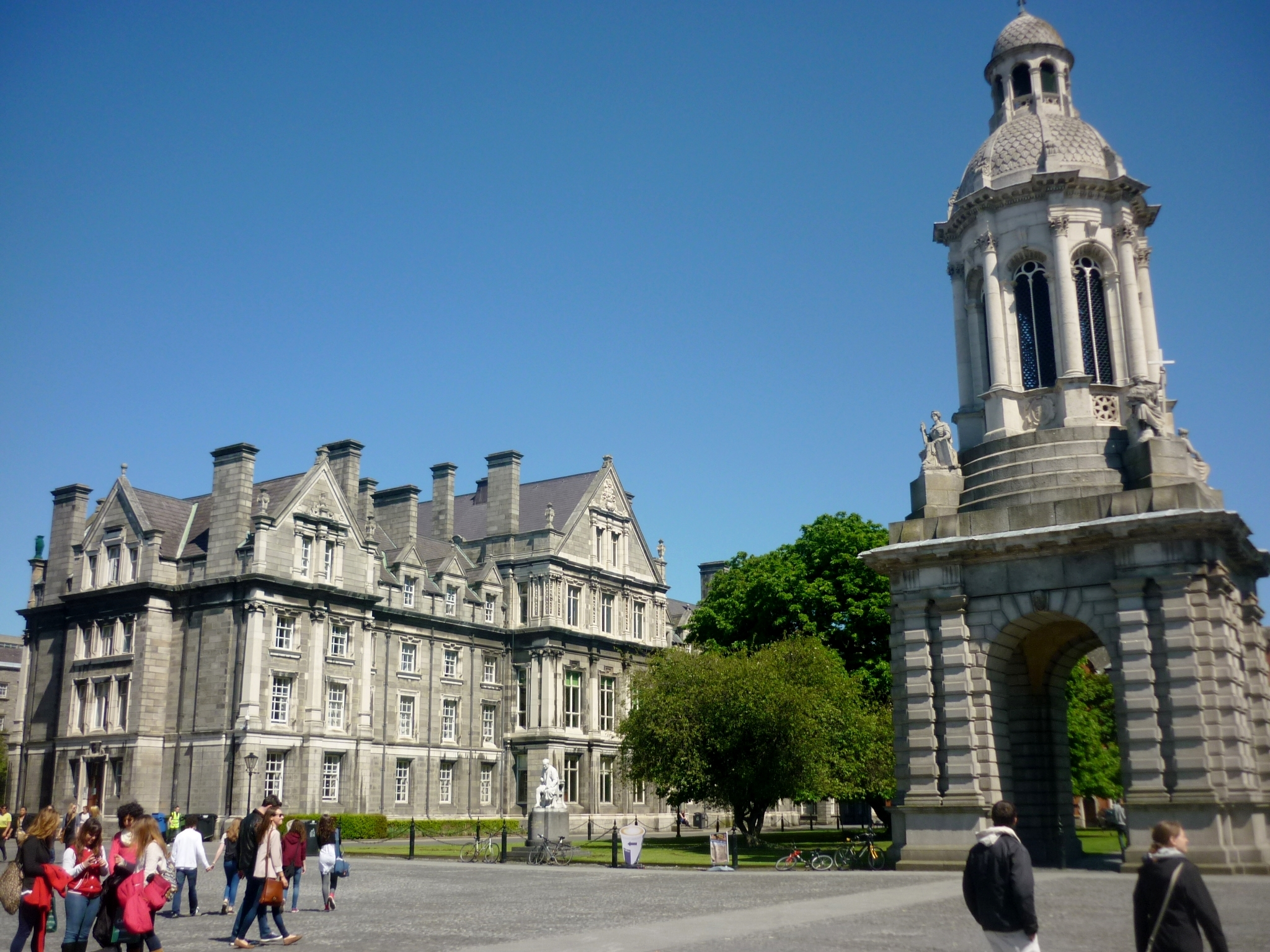 Trinity College Dublin